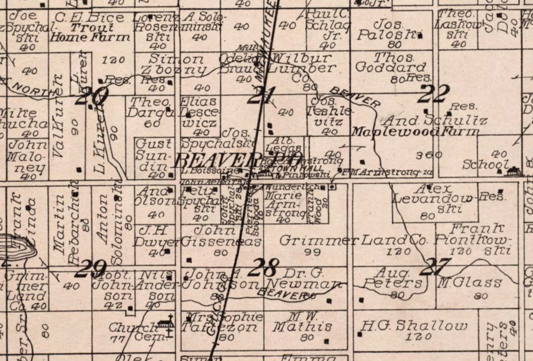 Map detail of Beaver, Wisconsin. From Standard Atlas of Marinette County Wisconsin Including a Plat Book of the Villages, Cities and Townships of the County. 1912. Chicago: Geo. A. Ogle & Co.